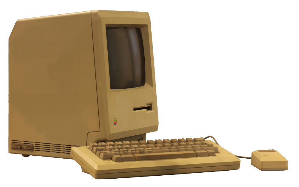 Macintosh 512K. On display at the Cité des Sciences et de l'Industrie.